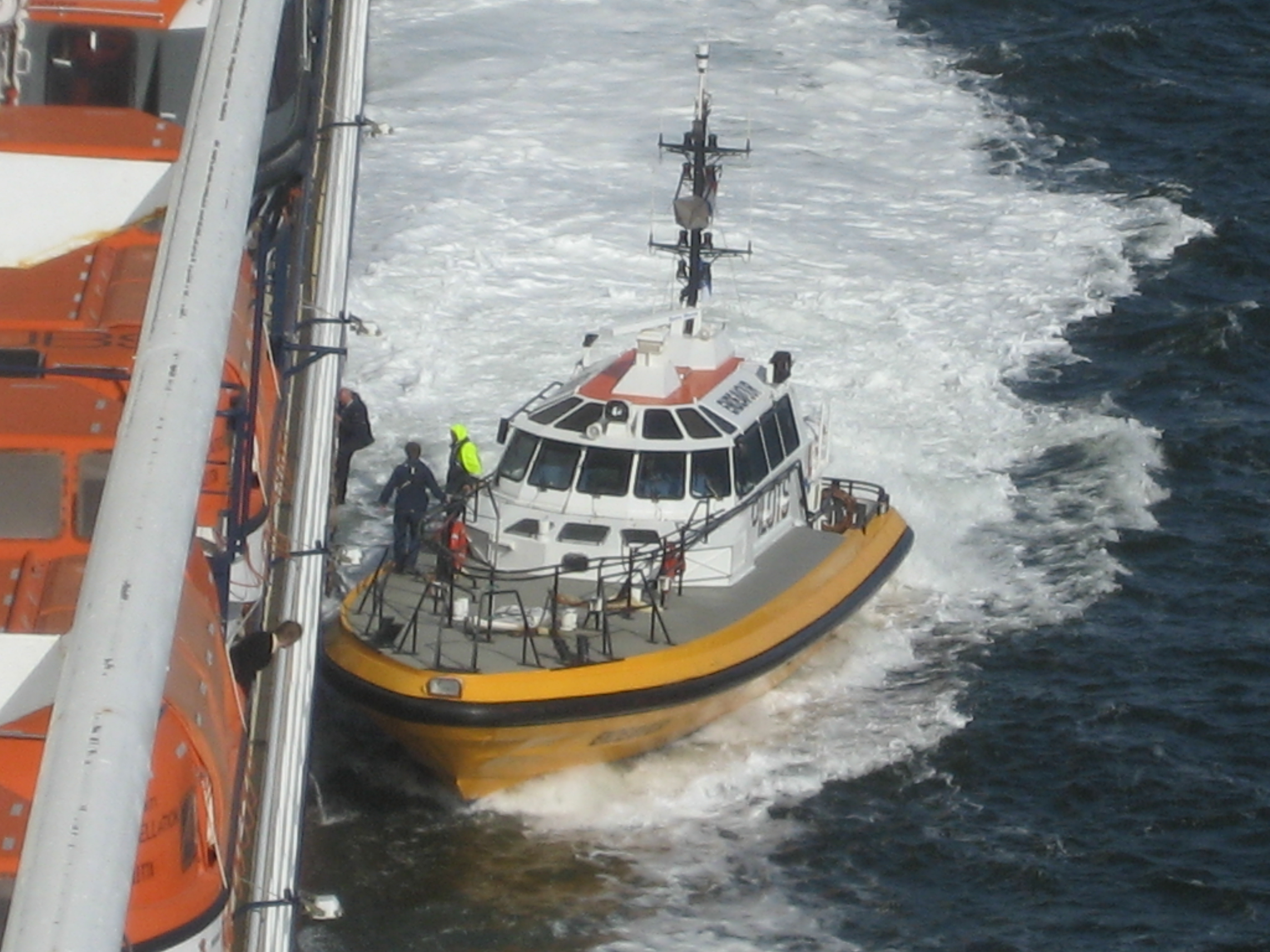 Amsterdam Pilot disembarking the Celebrity Constellation. (Pic taken from bridge)